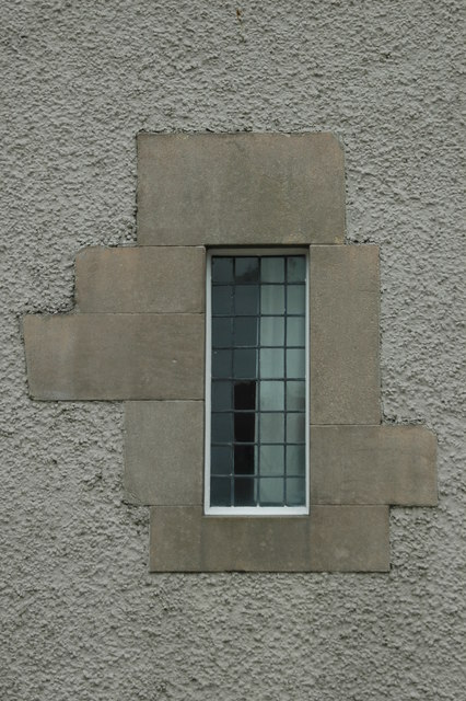 Classic example of the Mackintosh architectural style. Hill house in Scotland. Well worth a visit!